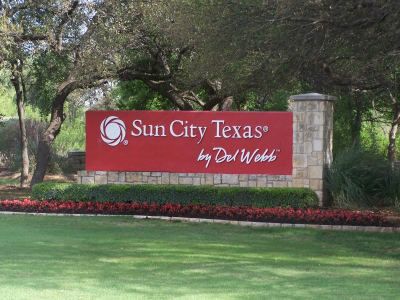 Entry sign to Sun City Texas, Georgetown